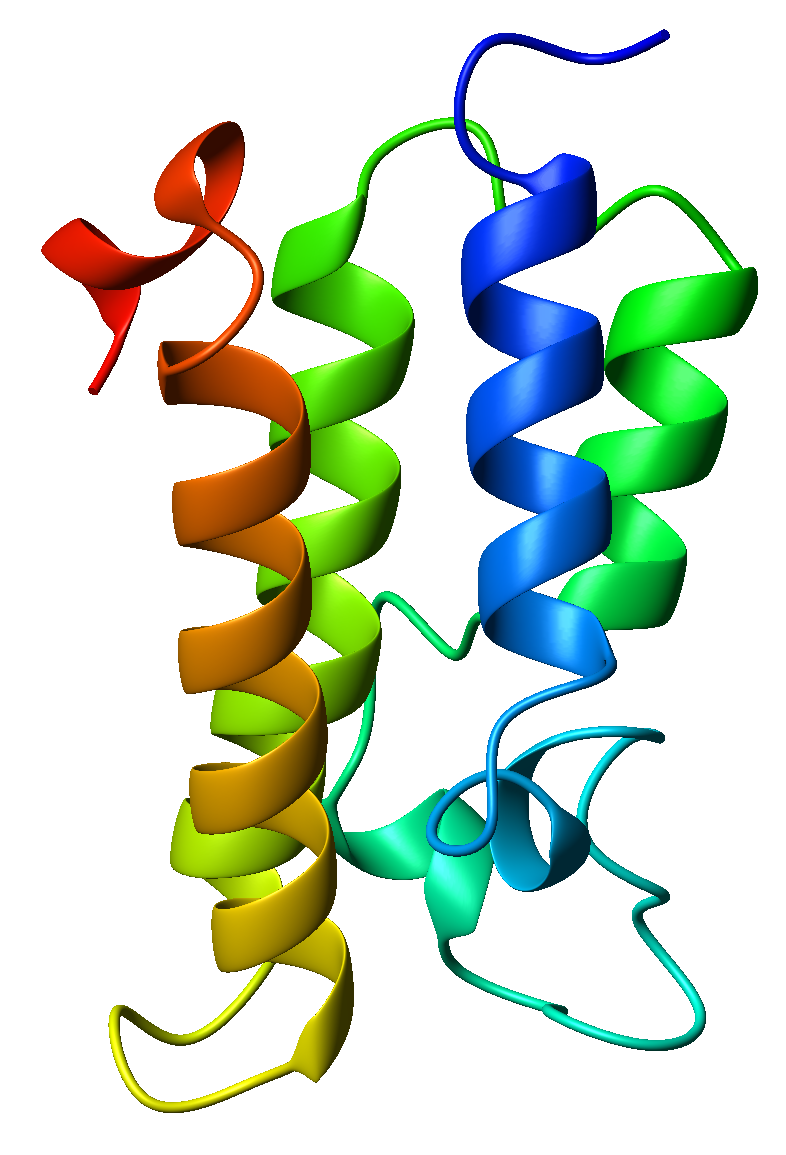 Ribbon diagram of the GCN5 bromodomain from Saccharomyces cerevisiae (PDB accession code 1E6I, chain A). Made with MOLMOL.